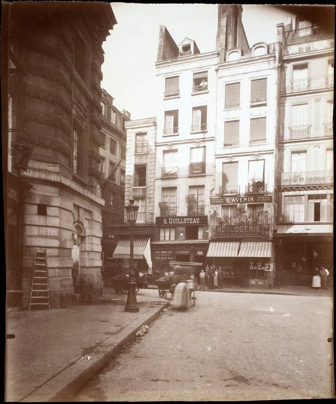 Albume print. 21.4 x 17.6 cm. George Eastman House. Accession number: 1981:0952:0012/